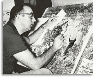 James Lewick at work